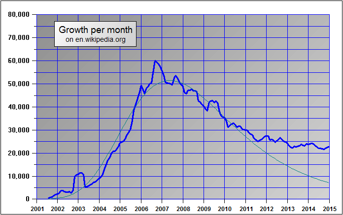 Number of article growth on and Gompertz extrapolation. The blueish-green line refers to a prediction of Wikipedia's results from about 2010. It appears that the growth of the number of Wikipedia articles is not as low as expected. This graph is no longer updated. See here at for the current status.